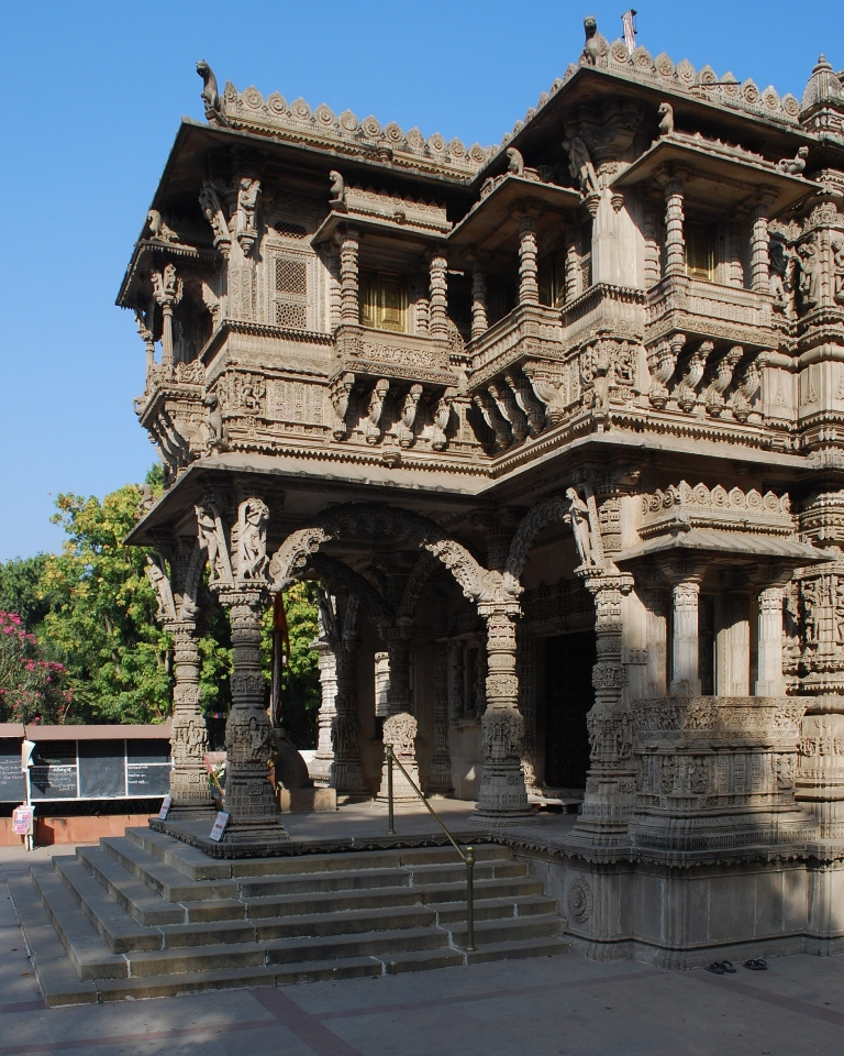 Hathisingh Jain Temple, Ahmedabad